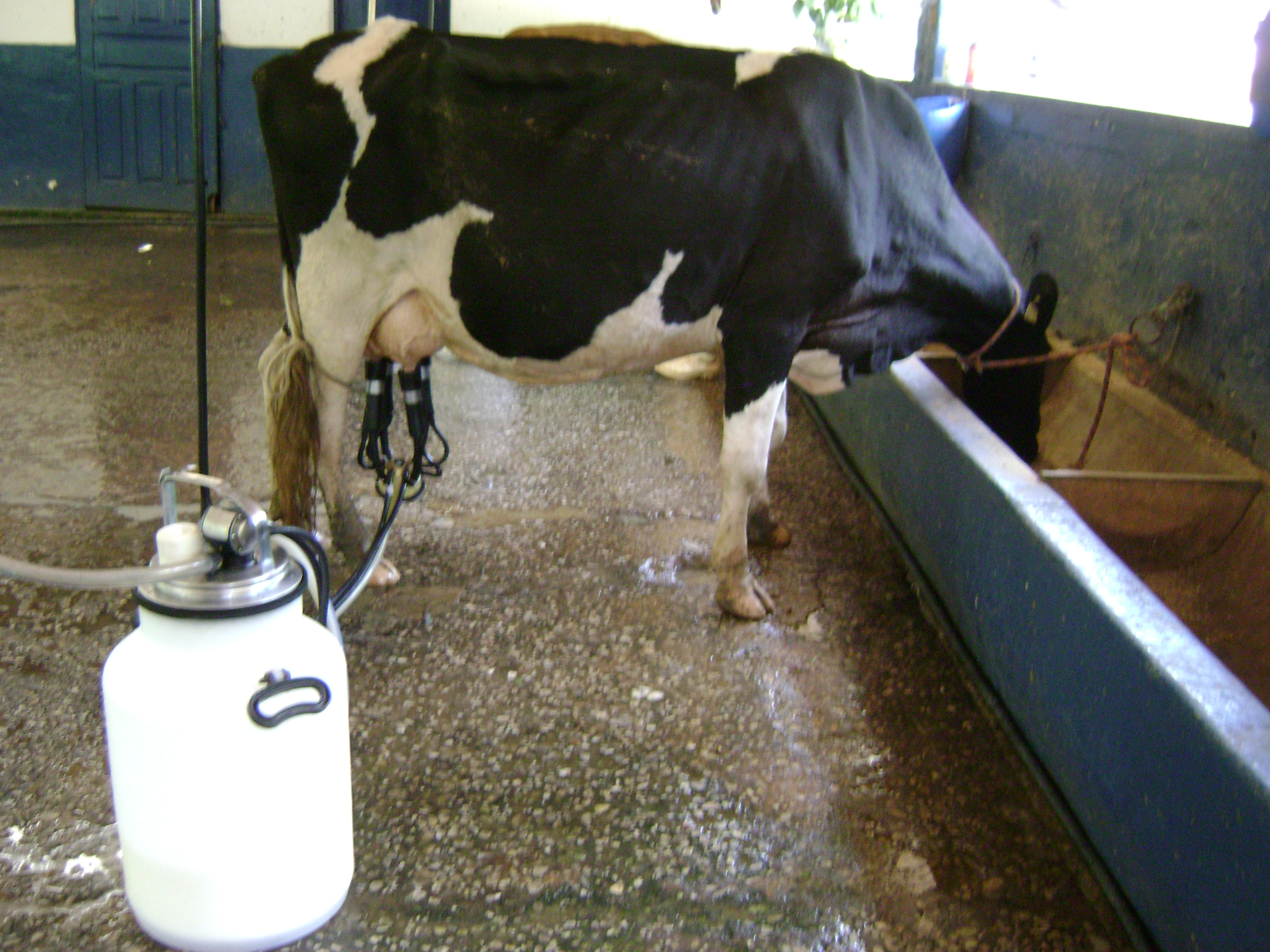 Milking next to the municipality of Ouro Preto, in Minas Gerais, Brazil.